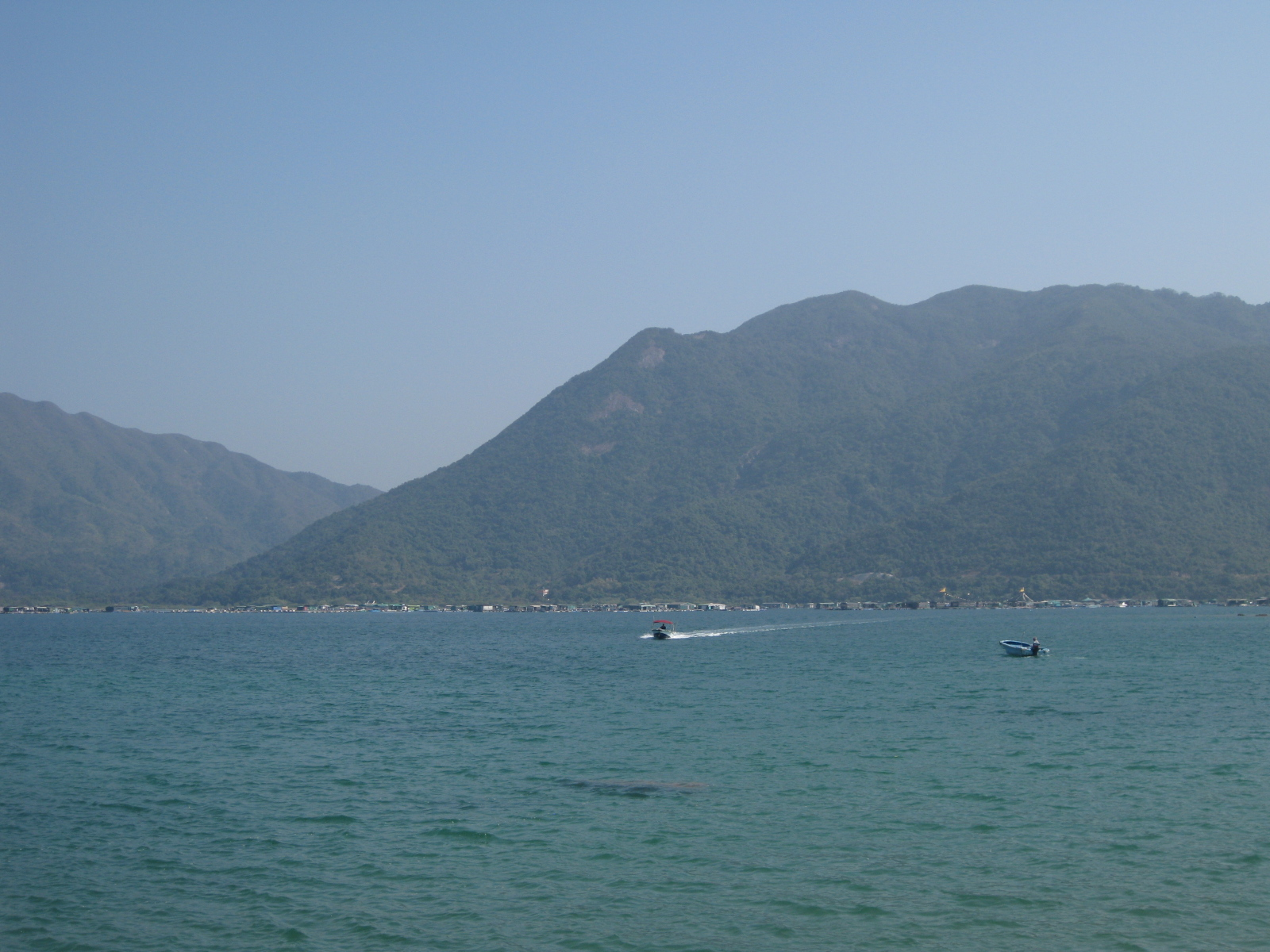 Yung Shue O